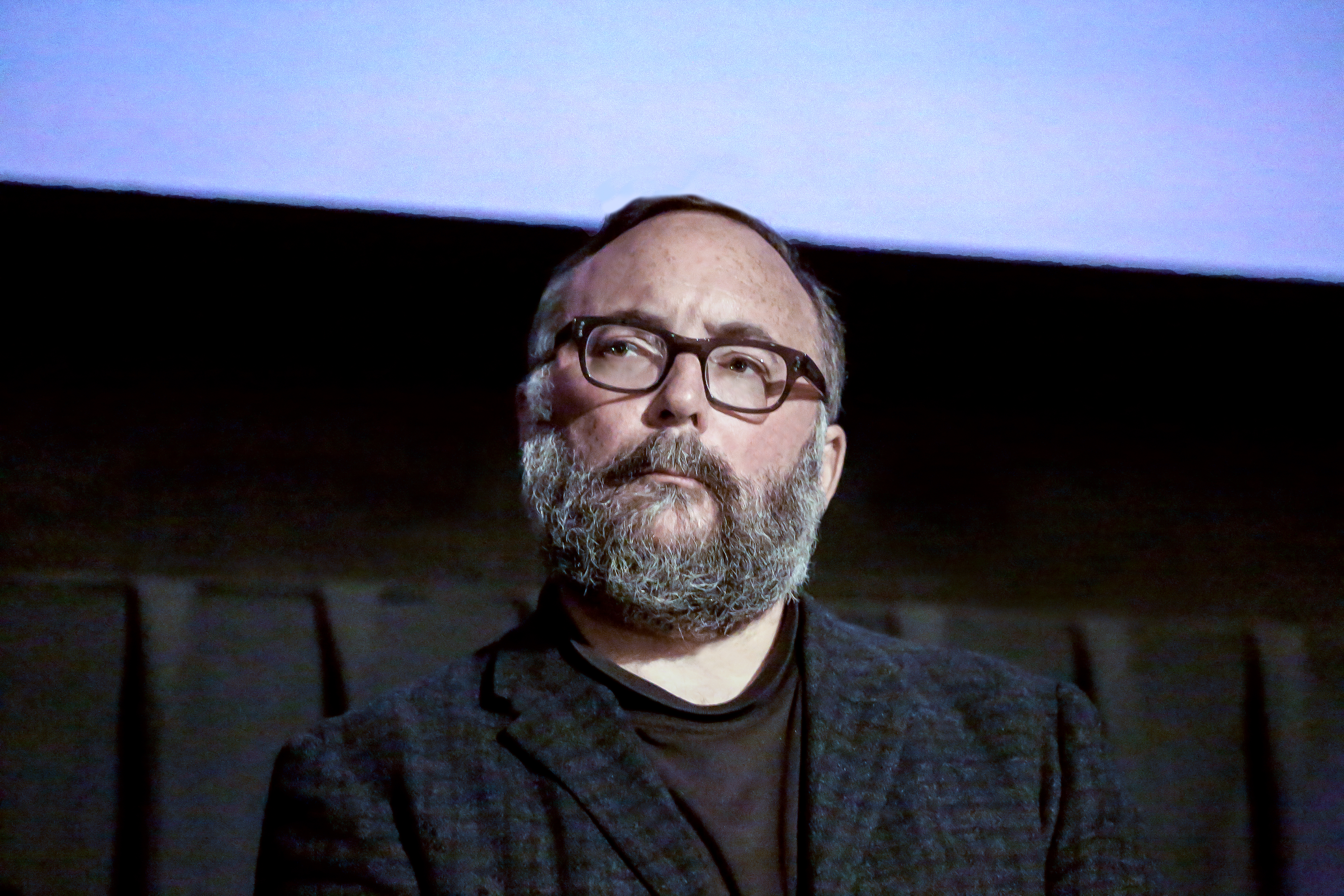 Mike S. Ryan at the premiere of Free in Deed during the Montclair Film Festival 2016.